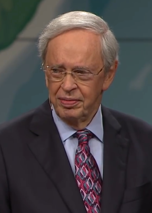 Christian minister, Dr. Charles Stanley, speaking in July 2020